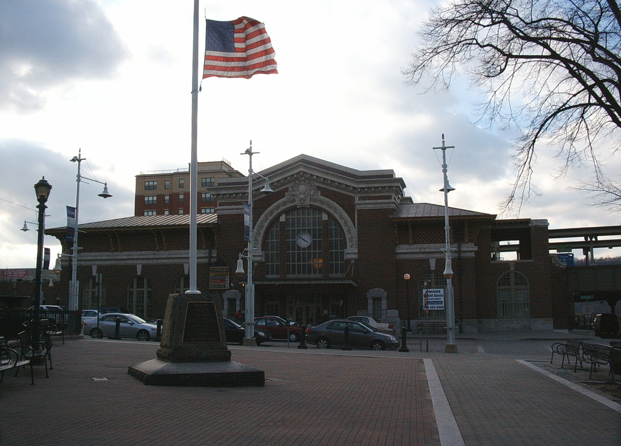 Yonkers train station, on the Hudson Line.